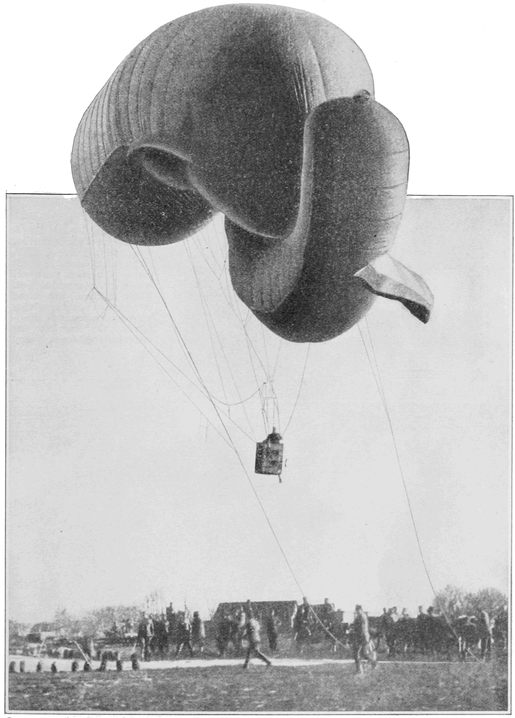 Serbian observation balloon 1916